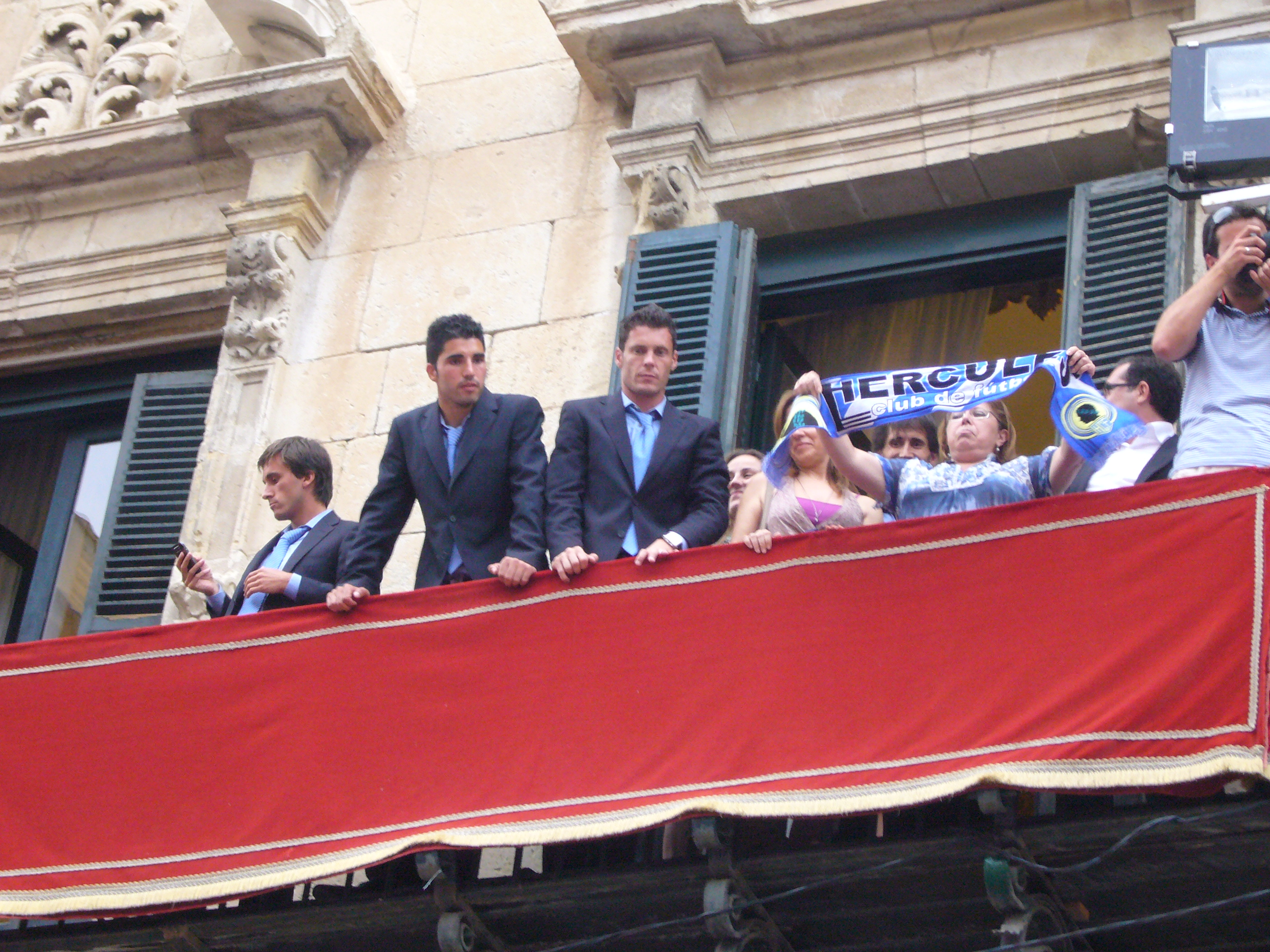 Gerardo Noriega (first from left), Sergio Díaz (second from left) and Juan Calatayud (third from left) on the balcony of the City of Alicante during the celebrations for the rise of Hércules C. F. to First division in 2009/10 season.